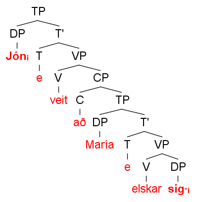 Adapted from Maling (1984) example of "John knows that Maria loves(ind.) REFL"